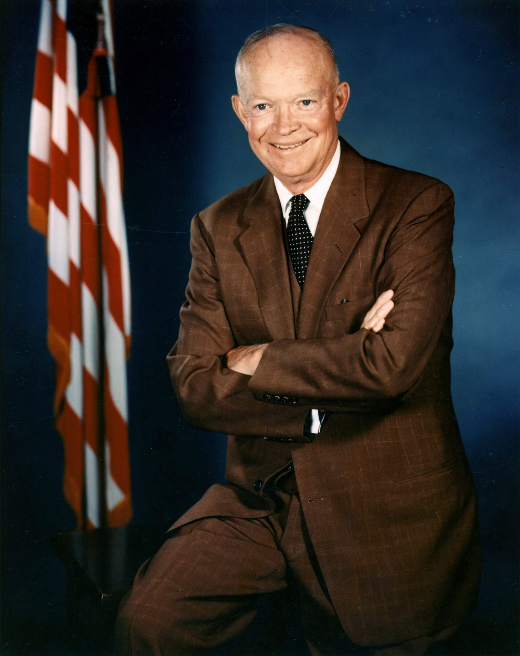 Dwight D. Eisenhower official photo portrait.